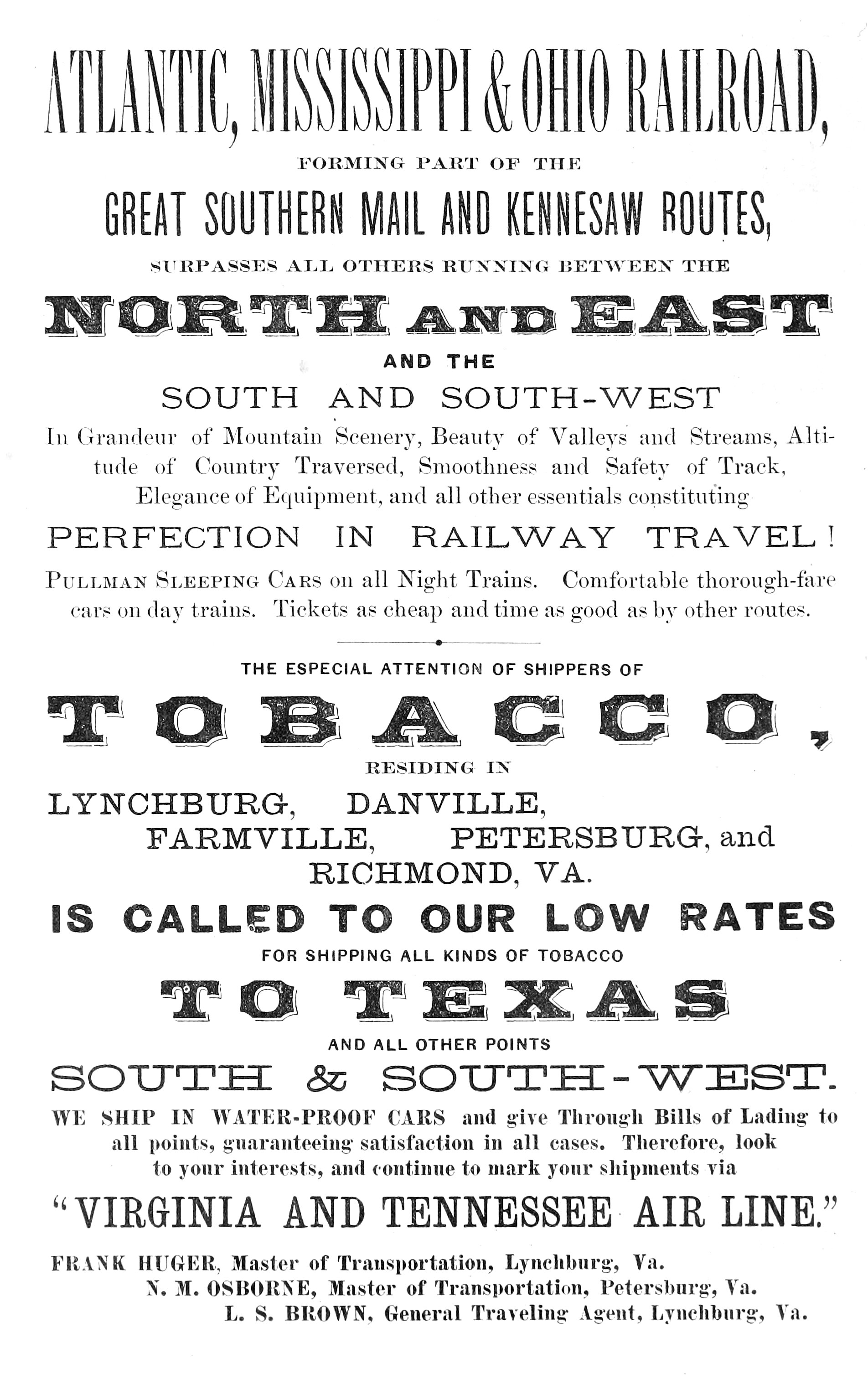 1880 advertisement for the Atlantic, Mississippi, & Ohio Railroad, published in a guidebook to Norfolk, Va. (cropped, lightened, and cleaned up)